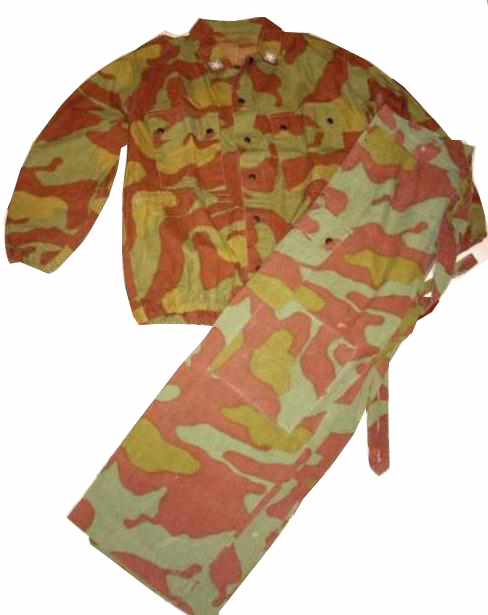 Italian M. 1958 oversuit in telo mimetico pattern